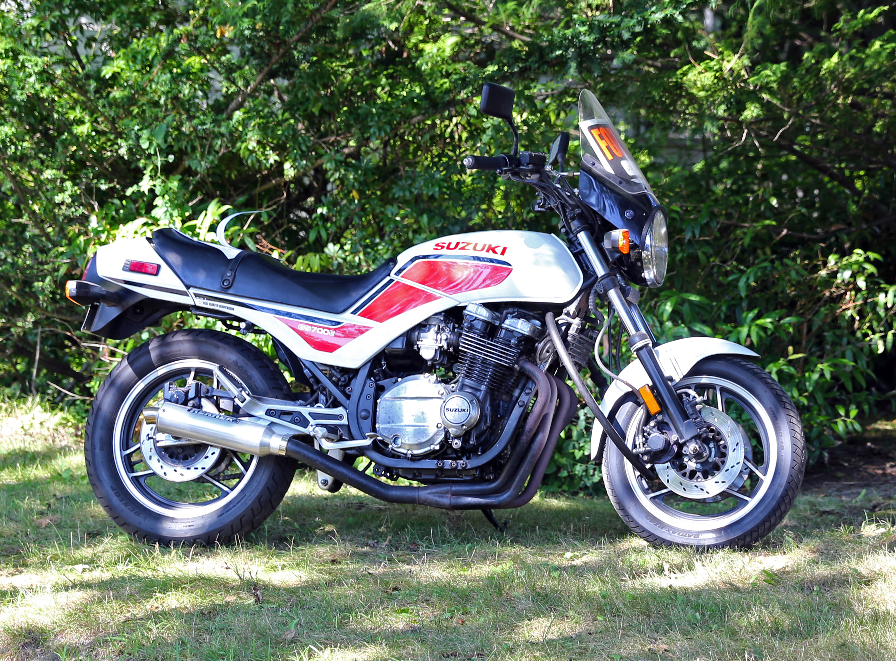 1980s Suzuki GS 700E in the Hamptons (Long Island). This was a US-only version of the GSX 750, developed especially to fit into a lower-tariff category developed for 1984 to protect Harley-Davidson.